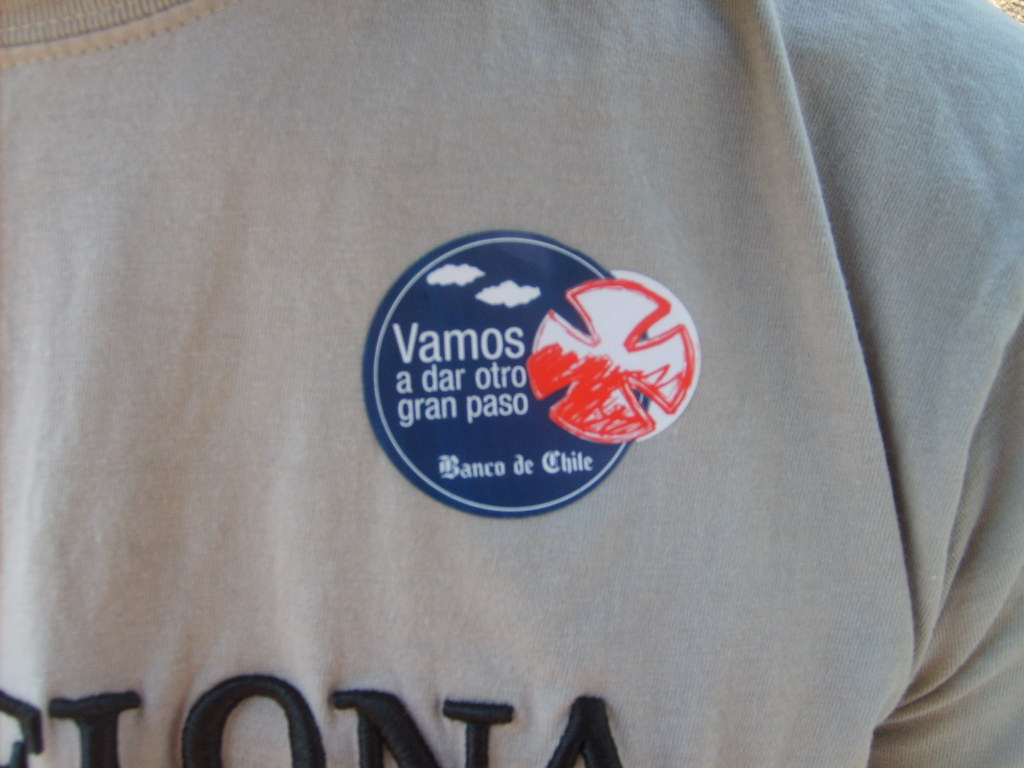 A sticker in my t-shirt.